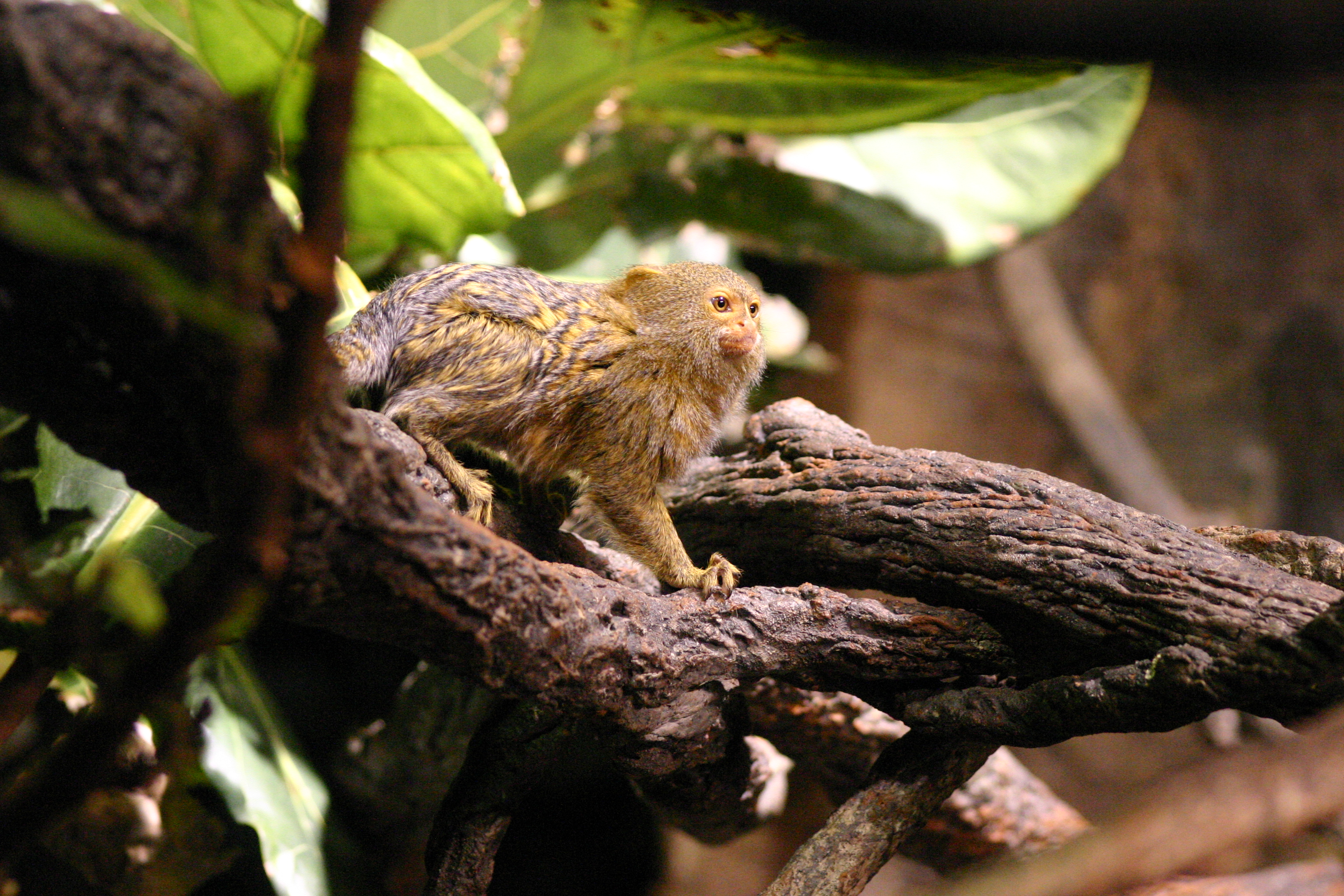 Pygmy Marmoset of Oregon Zoo. Take by enwiki user Brian.gratwicke.